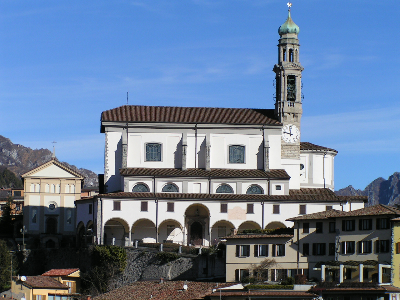 Church of Vertova, Italy